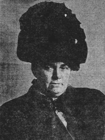 Clara C. Munson, mayor of Warrenton, Oregon from 1913 to 1914